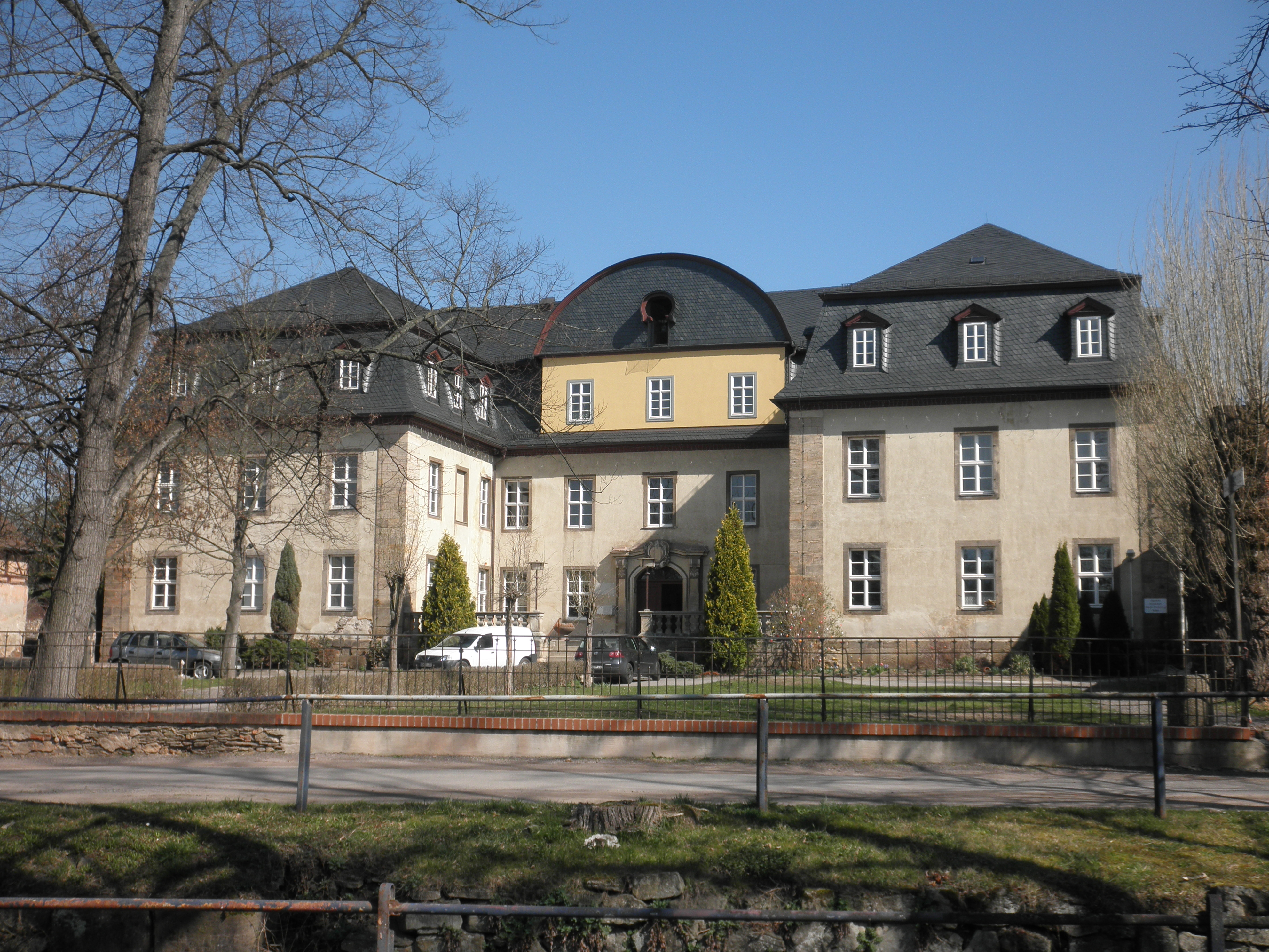 Castle in Krölpa (Pößneck) in Thuringia